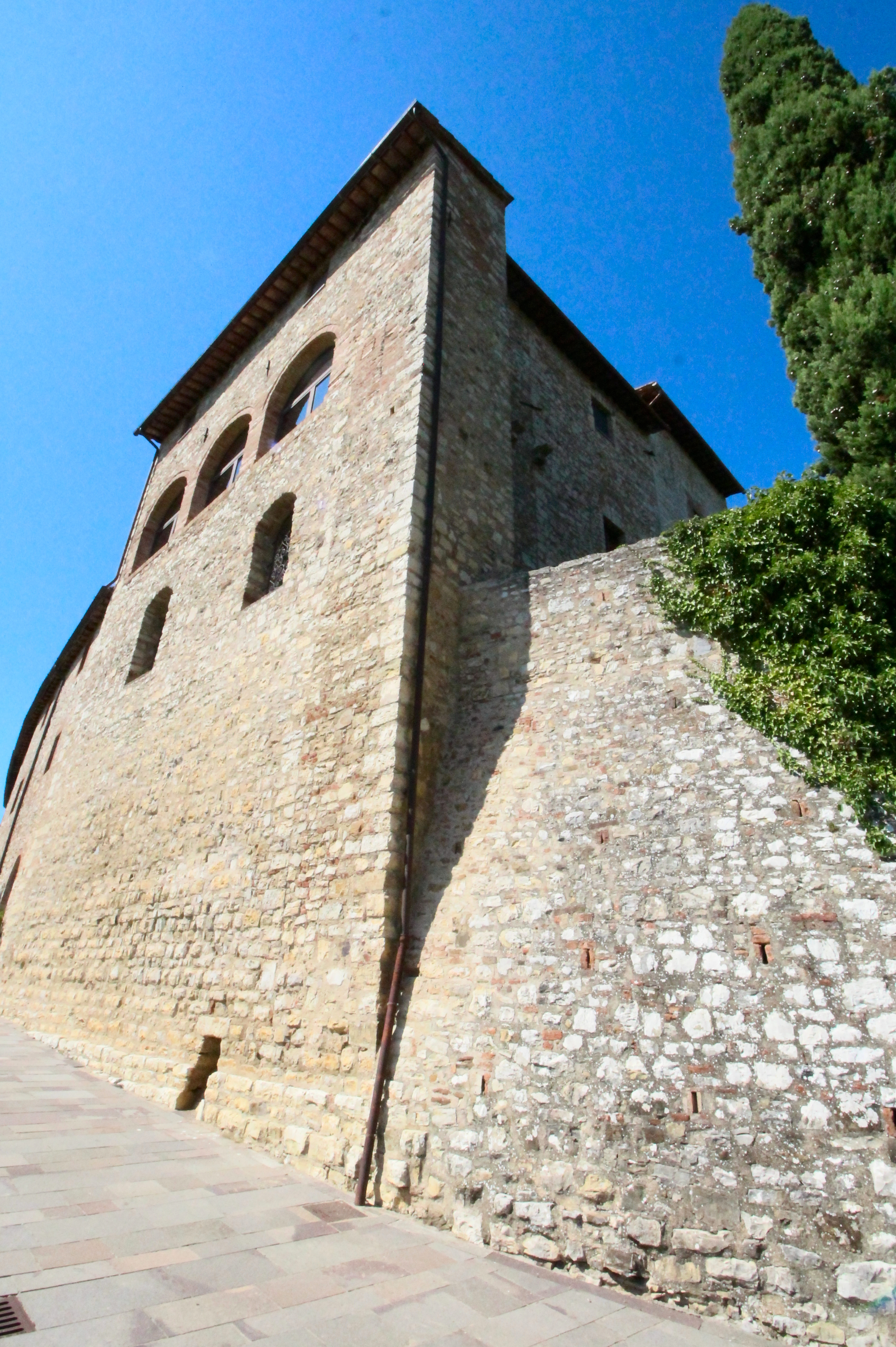 Castle Castello di Lucignano, Gaiole in Chianti, Province of Siena, Tuscany, Italy